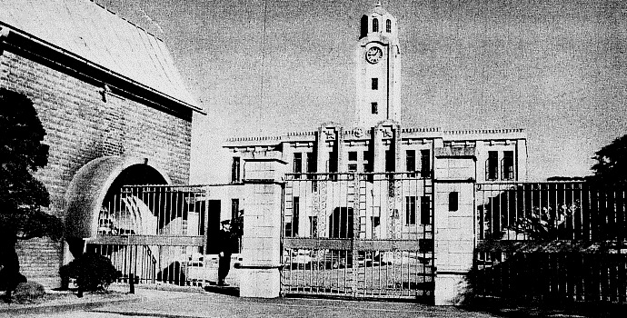 Nakano Prison